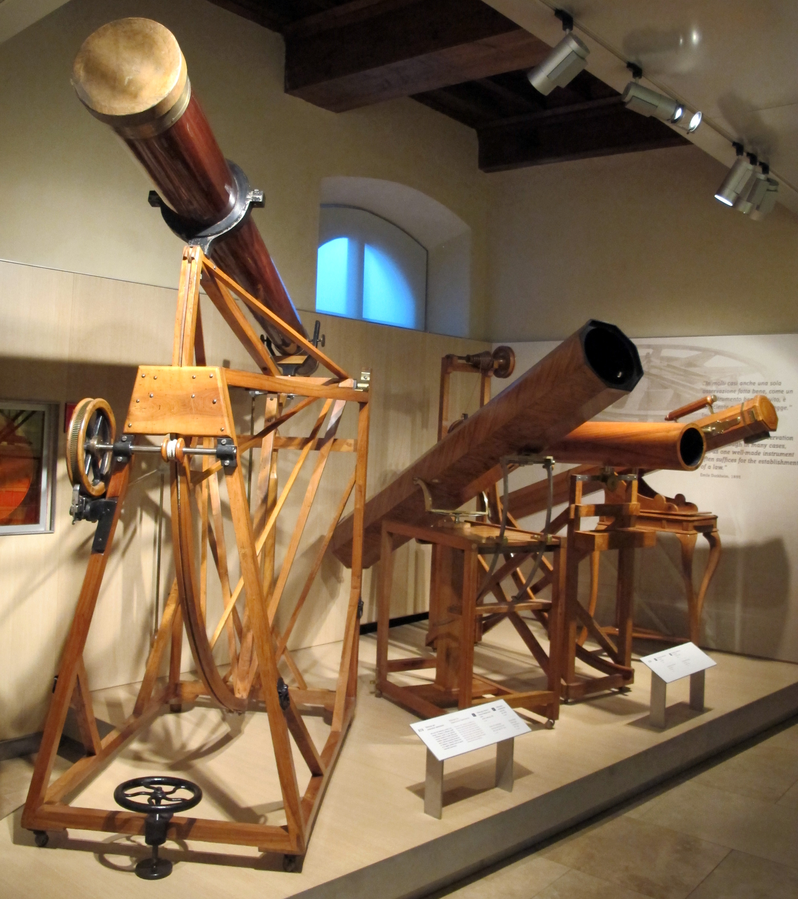 Amici II telescope.